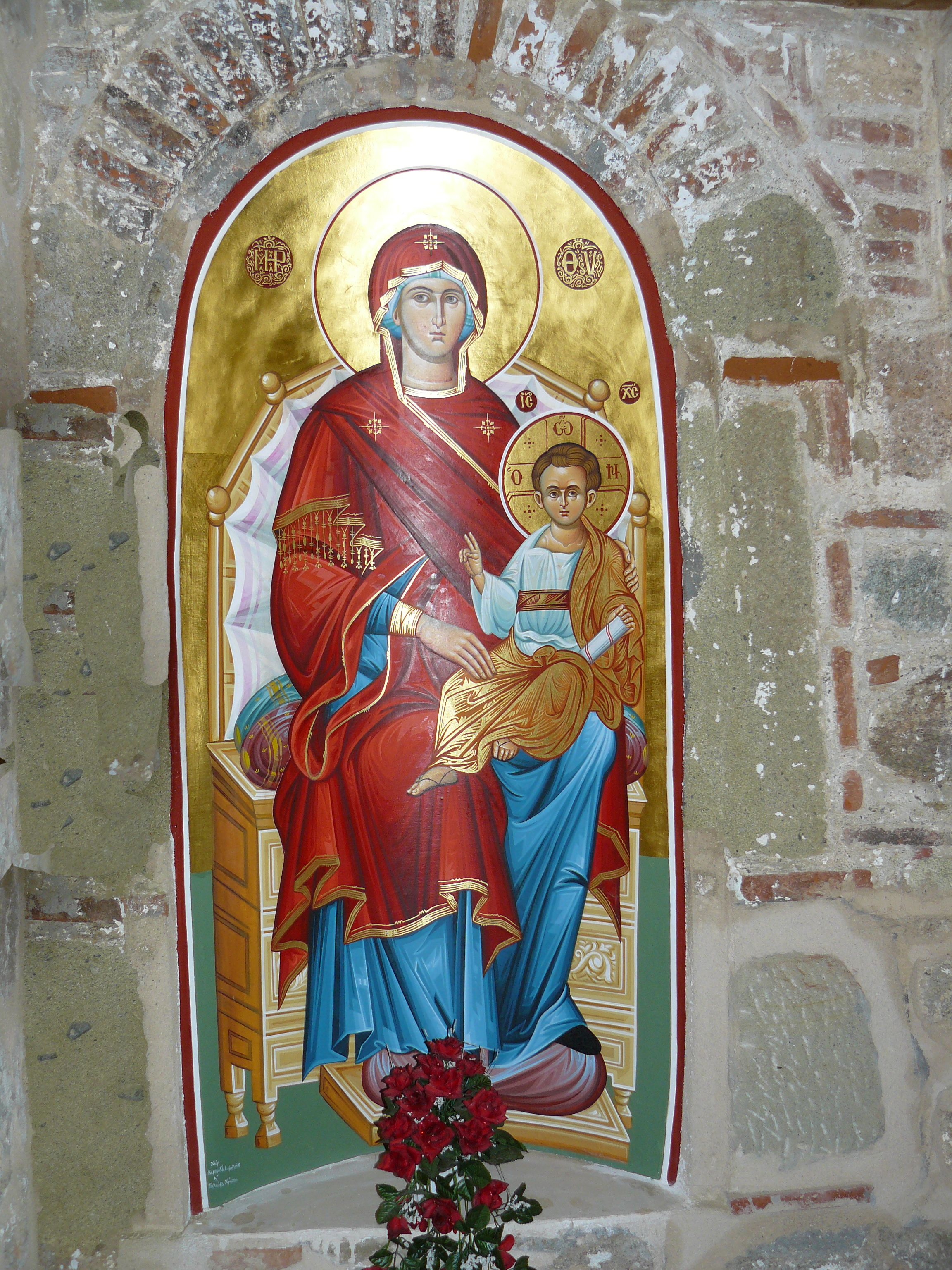 Theotokos - Virgin Mary with Her Son - the painting in the niche in the wall of the Holy Trinity monastery, Meteora, Greece